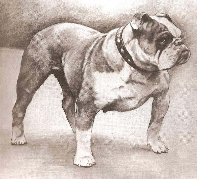 Roseville Blaze (English Bulldog)